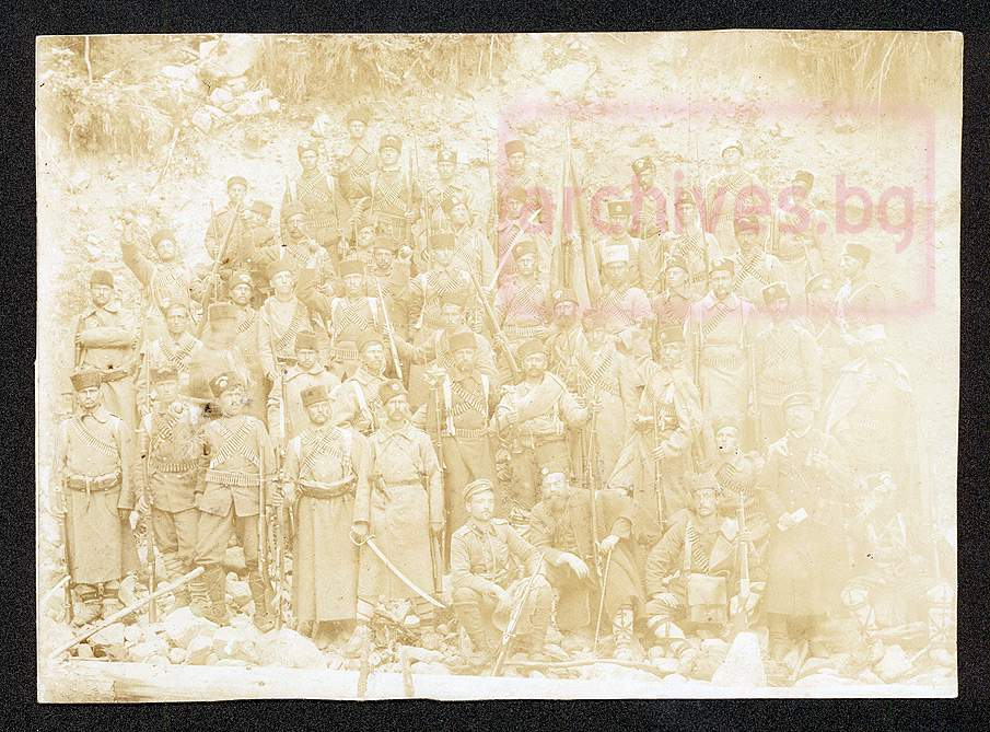 Cheta of SMAC bulgarian revolutionary Hristo Tanushev